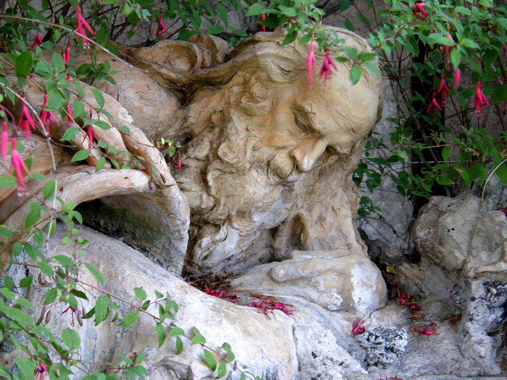 Injalbert work in Villa Antonine